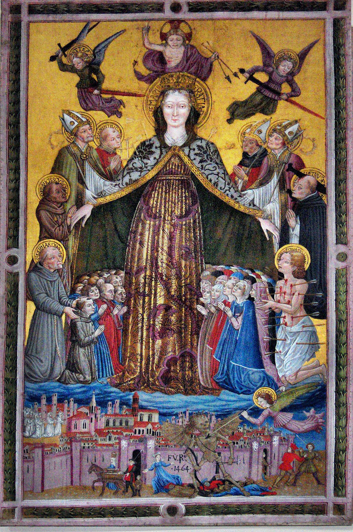 "Gonfalone di S. Francesco al prato", painting (1464) by Benedetto Bonfigli and Mariano d'Antonio; on Mary's left side from the top : San Lorenzo, Ercolano, St. Francis and St. Bernardino; on the right side: S. Lodovico, Costanzo, St. Peter and St. Sebastian; in the Oratorio of San Bernardino; Perugia, Italy